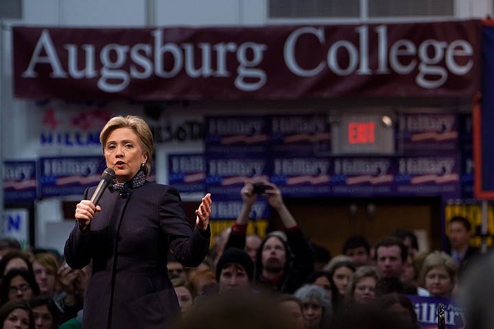 Hillary Clinton speaking at a rally in Minneapolis on Feb. 3, 2008.